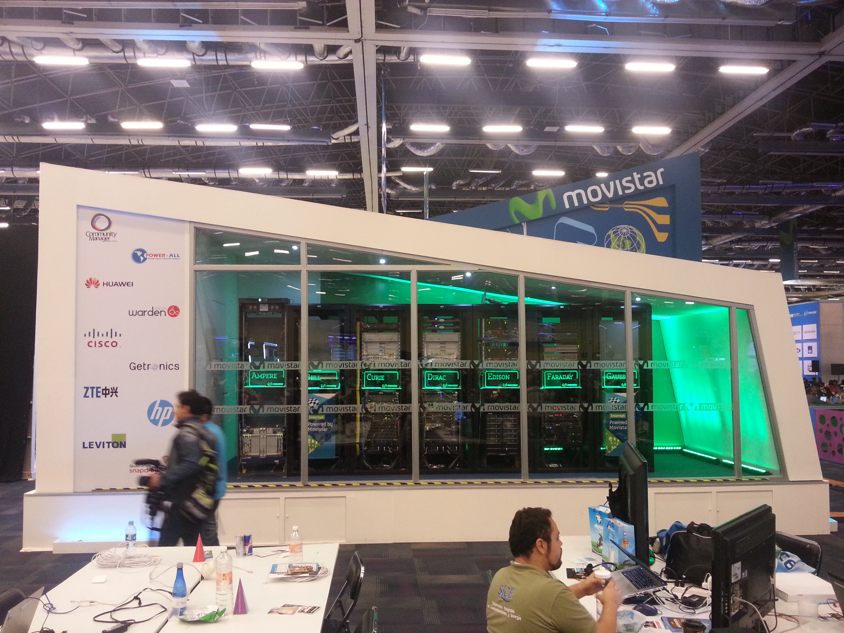 Ovni (Control Center) at Campus Party México 2014 (CPMX5)